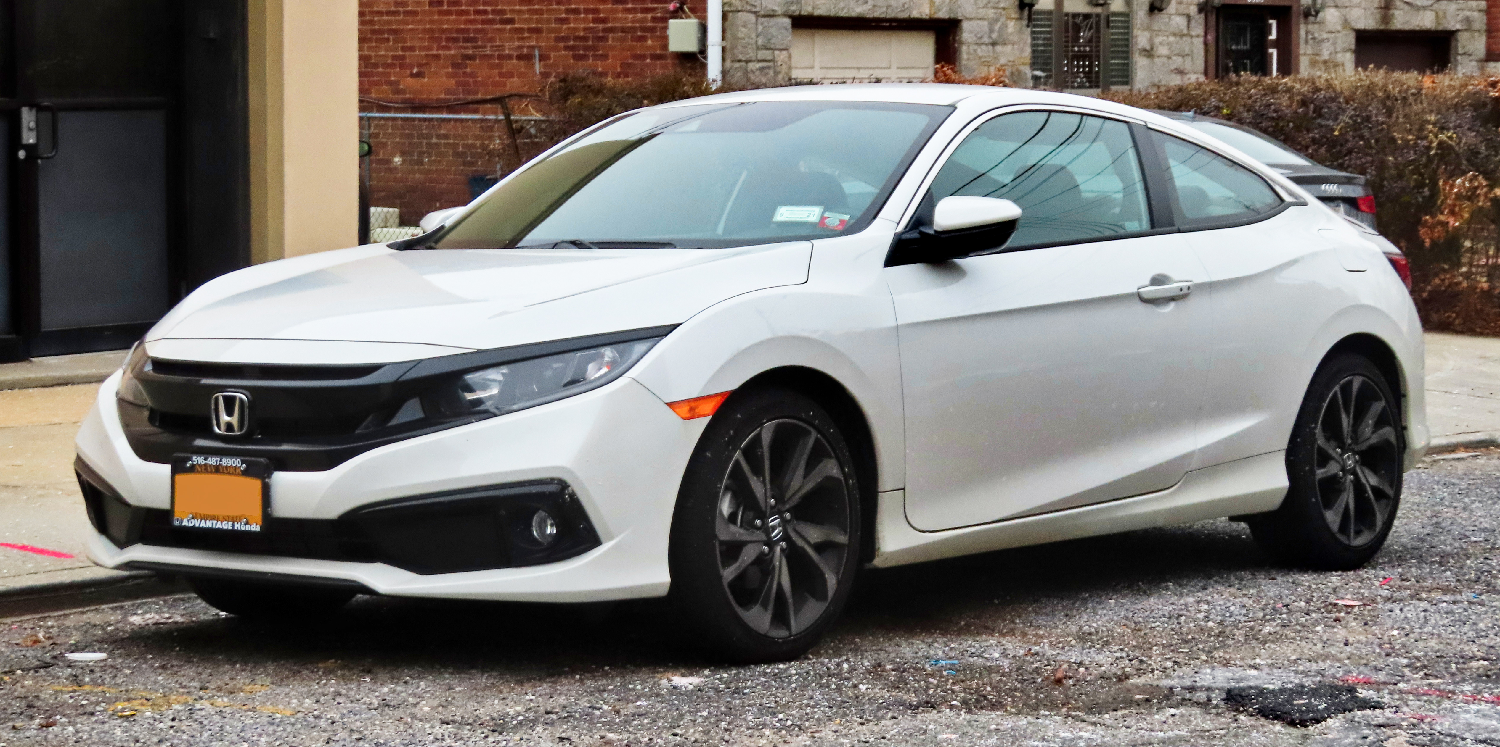 A 2019 Honda Civic coupe facelift photographed in Fresh Meadows, Queens, New York, USA